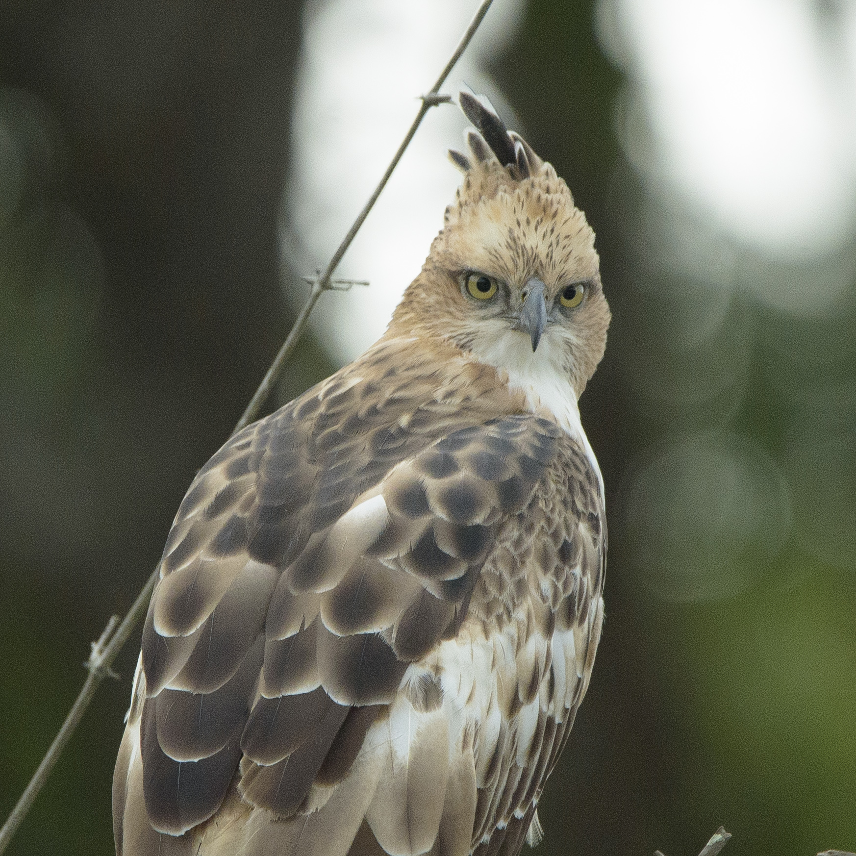 Changeable hawk-eagle in Bandipur reserve, Karnataka